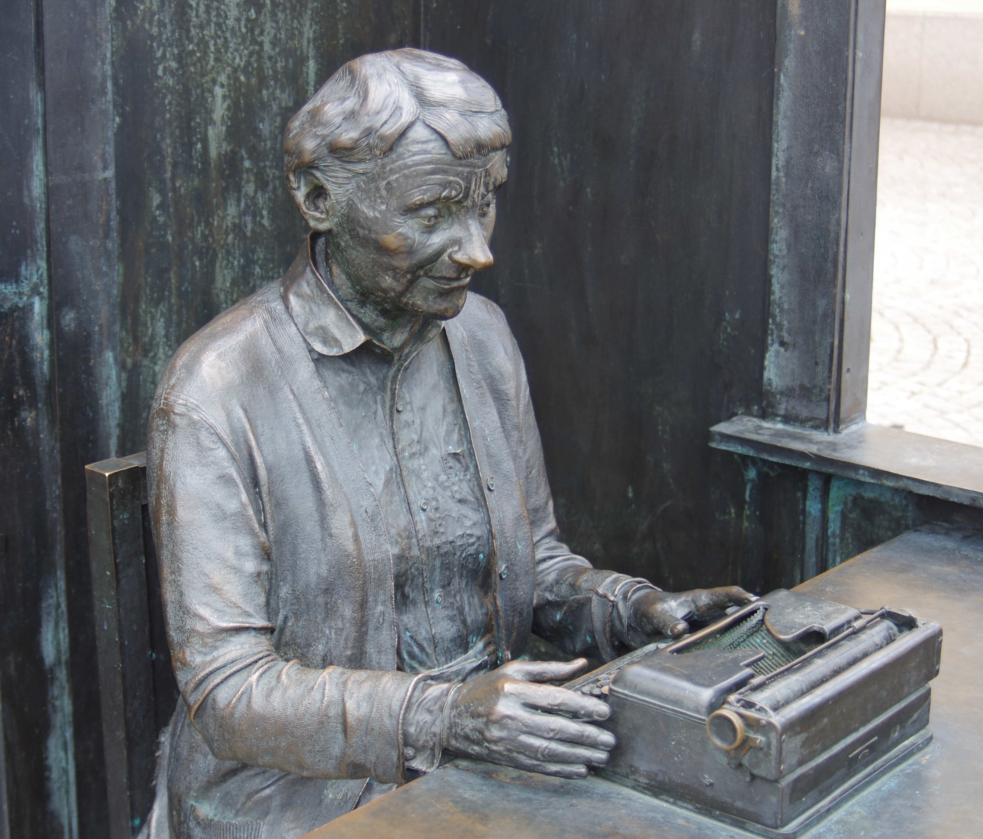 Astrid Lindgren at her typewriter. Statue created by Marie-Loise Ekman at Stora Torget, Vimmerby, Sweden.